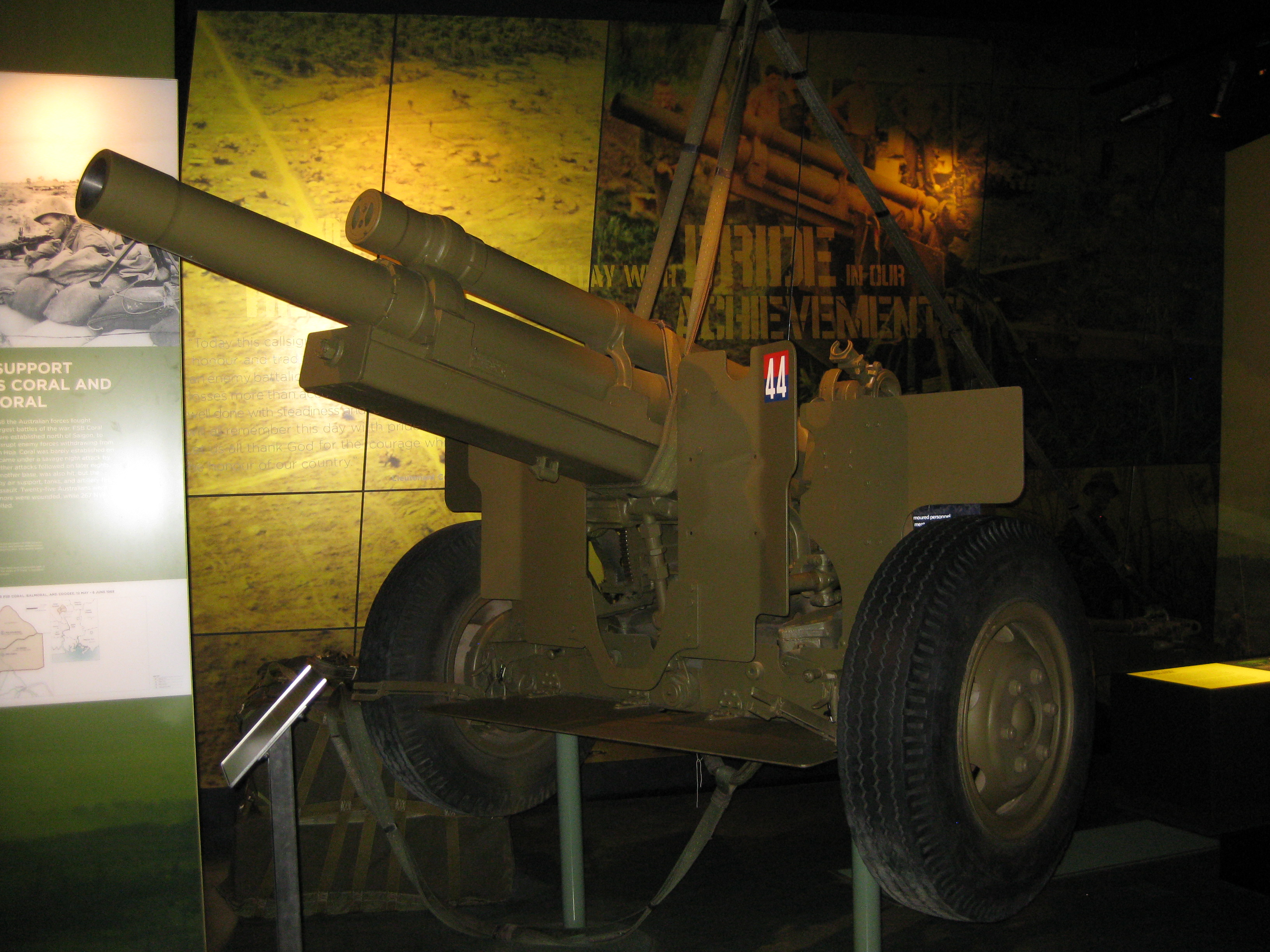 An M101 105mm howitzer that saw action in the Battle of Coral during the Vietnam War on display at the Australian War Memorial